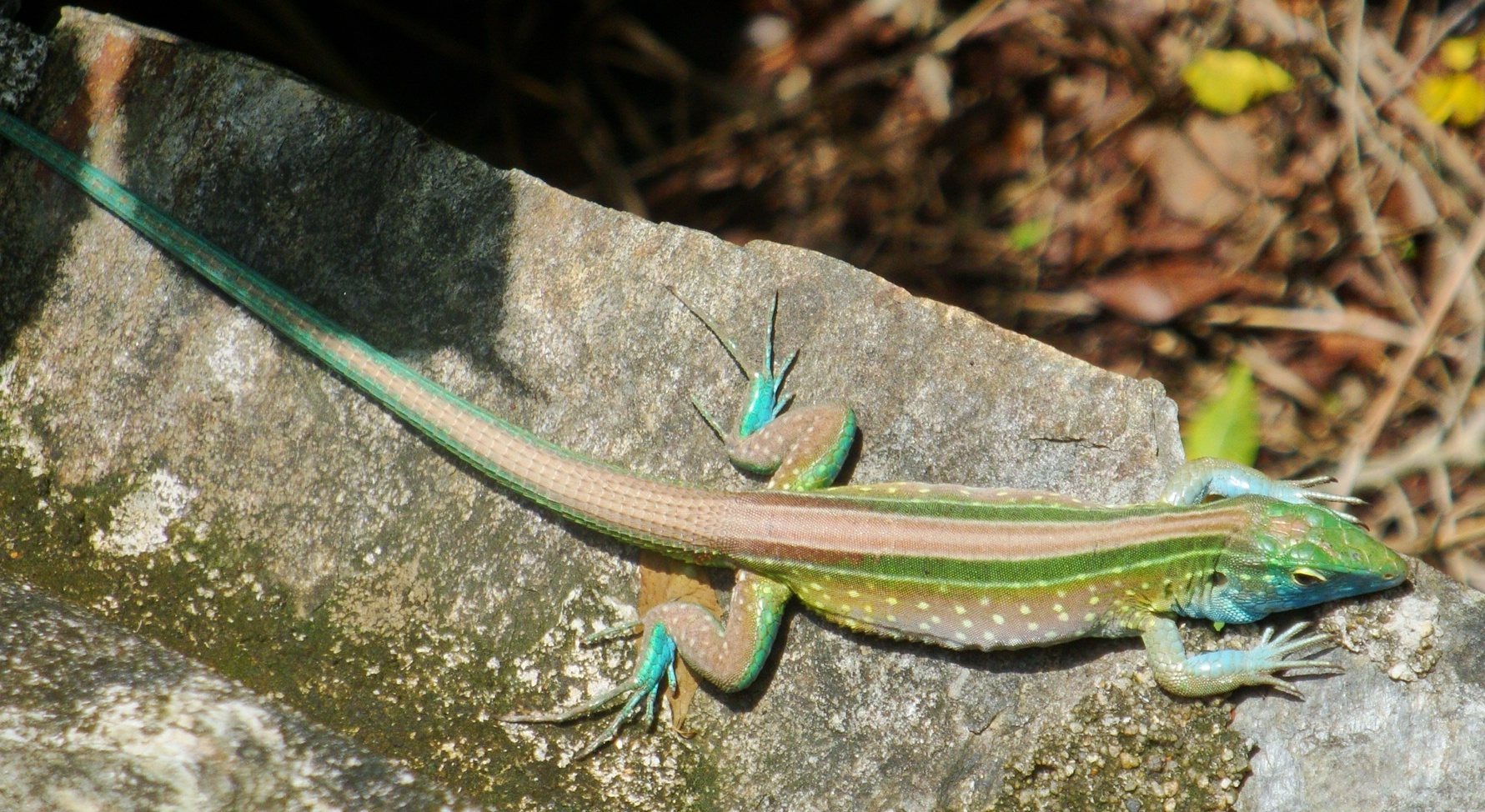 Cnemidophorus lemniscatus (Rainbow Whiptail), Tayrona National Natural Park, Magdalena Department, Colombia